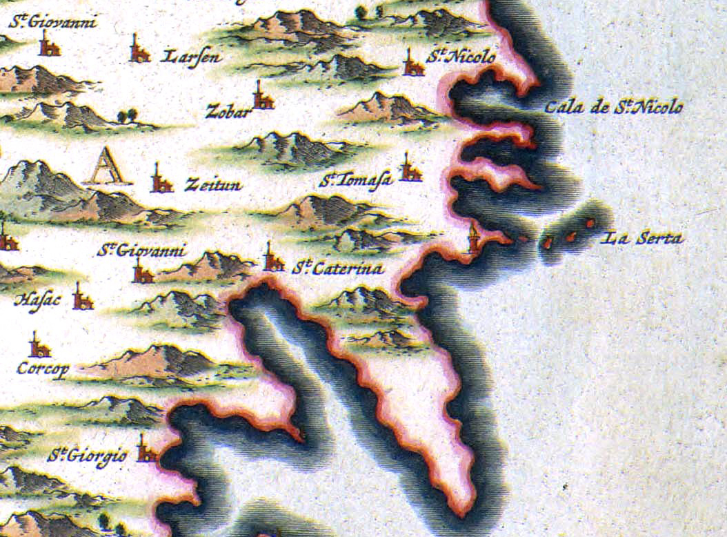 The map of Malta was published by Nicolaes Visscher II (1649-1702). The island Malta was generally known for its military, religious knight order of the Johanniters who had established themselves on the island. After the Crusades during which they distinguished themselves as hospital helpers, the Johanniters took care to secure the Mediterranean Sea against the Turks. This is a zoomed in version of the map, on the south eastern corner.